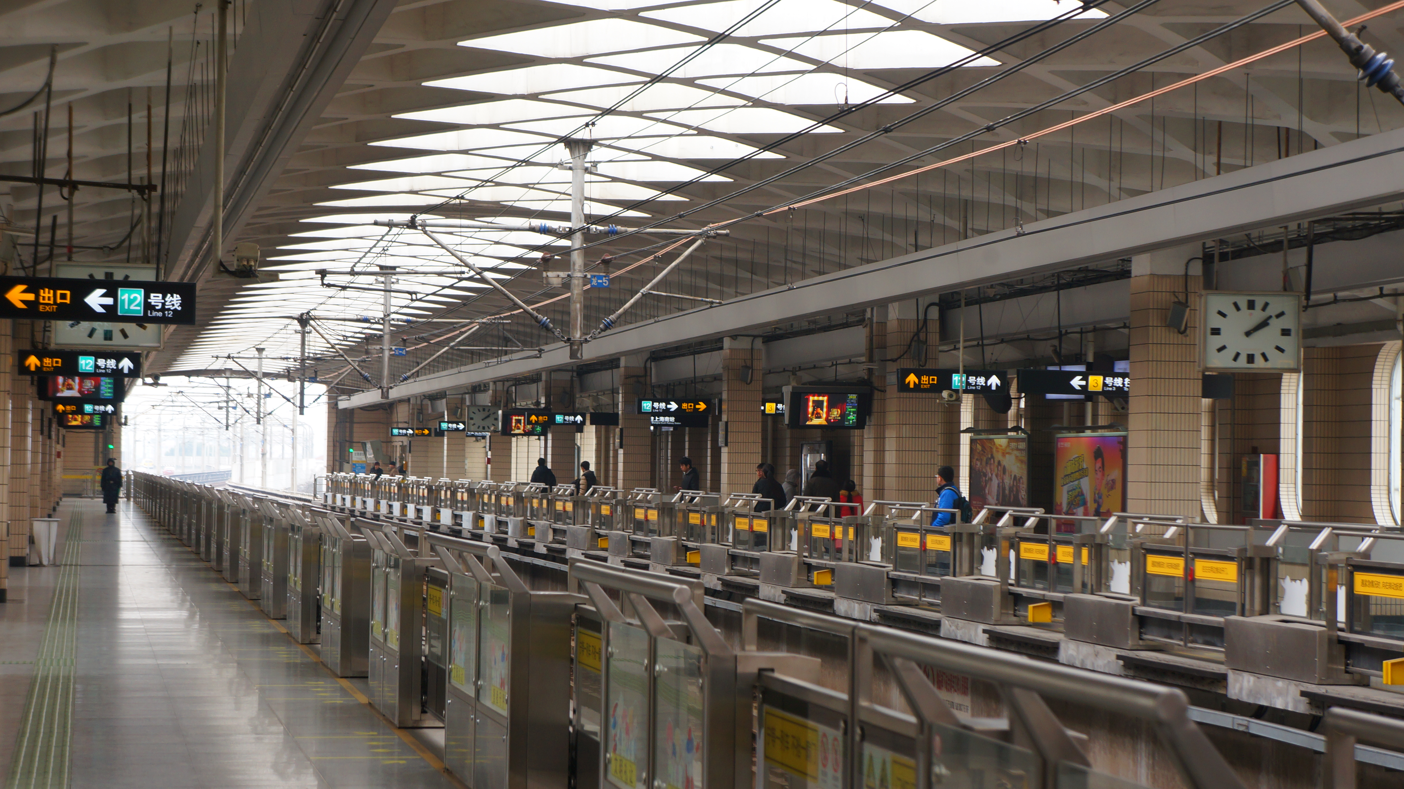 Platform for L3 at Longcao Road Station